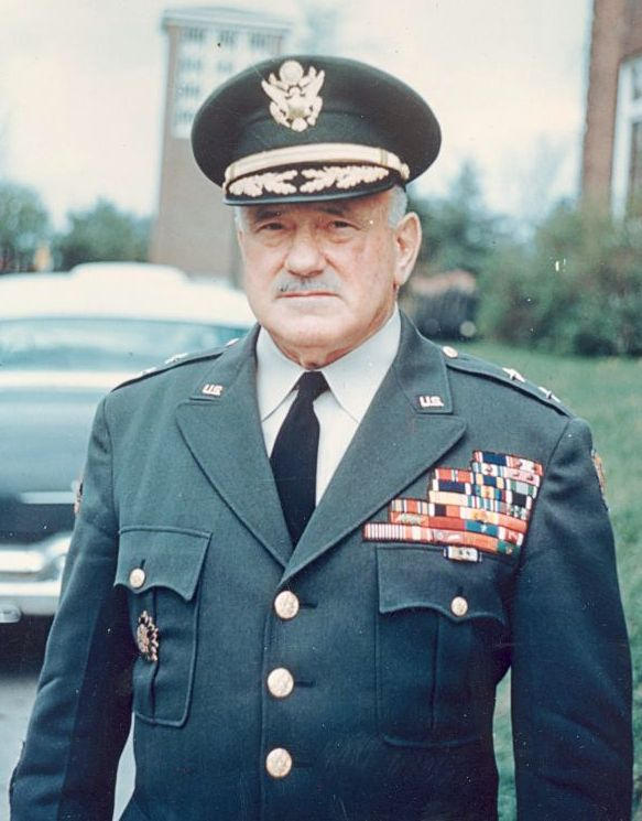 Ernest Nason Harmon (February 26, 1894 – November 13, 1979) was a United States Army general. He is best known for his actions in reorganizing U.S. II Corps after the debacle at the Battle of the Kasserine Pass in North Africa during World War II. He also served as president of Norwich University from 1950 to 1965.